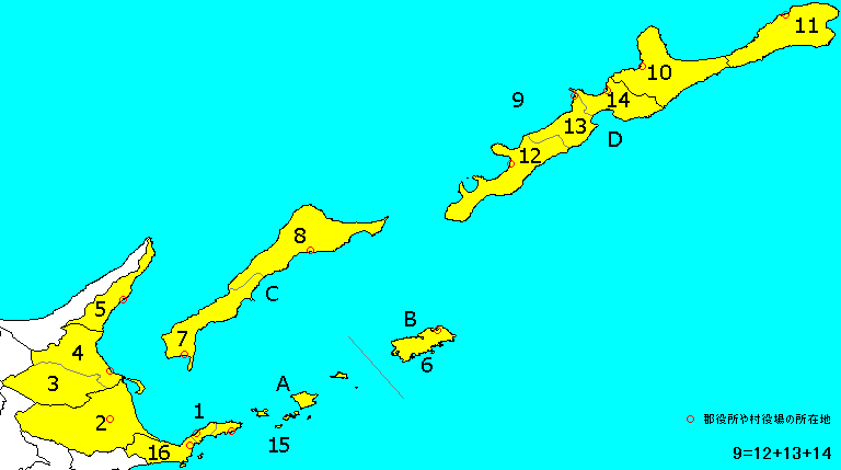 Area of Syana and Nemuro subprefectures, in Hokkaido Prefecture, northern Japan (per treaty with Imperial Russia of 5 Nov. 1897). Including the lower Kuril Islands.